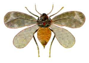 Spiny whitefly. Aleurocanthus spiniferus (Hemiptera:Aleyrodidae)